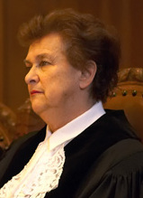 Public hearings of the Court presided over by H.E. Judge Rosalyn Higgins (February/March 2006) - Sixtieth anniversary of the International Court of Justice – Solemn sitting of Wednesday 12 April 2006